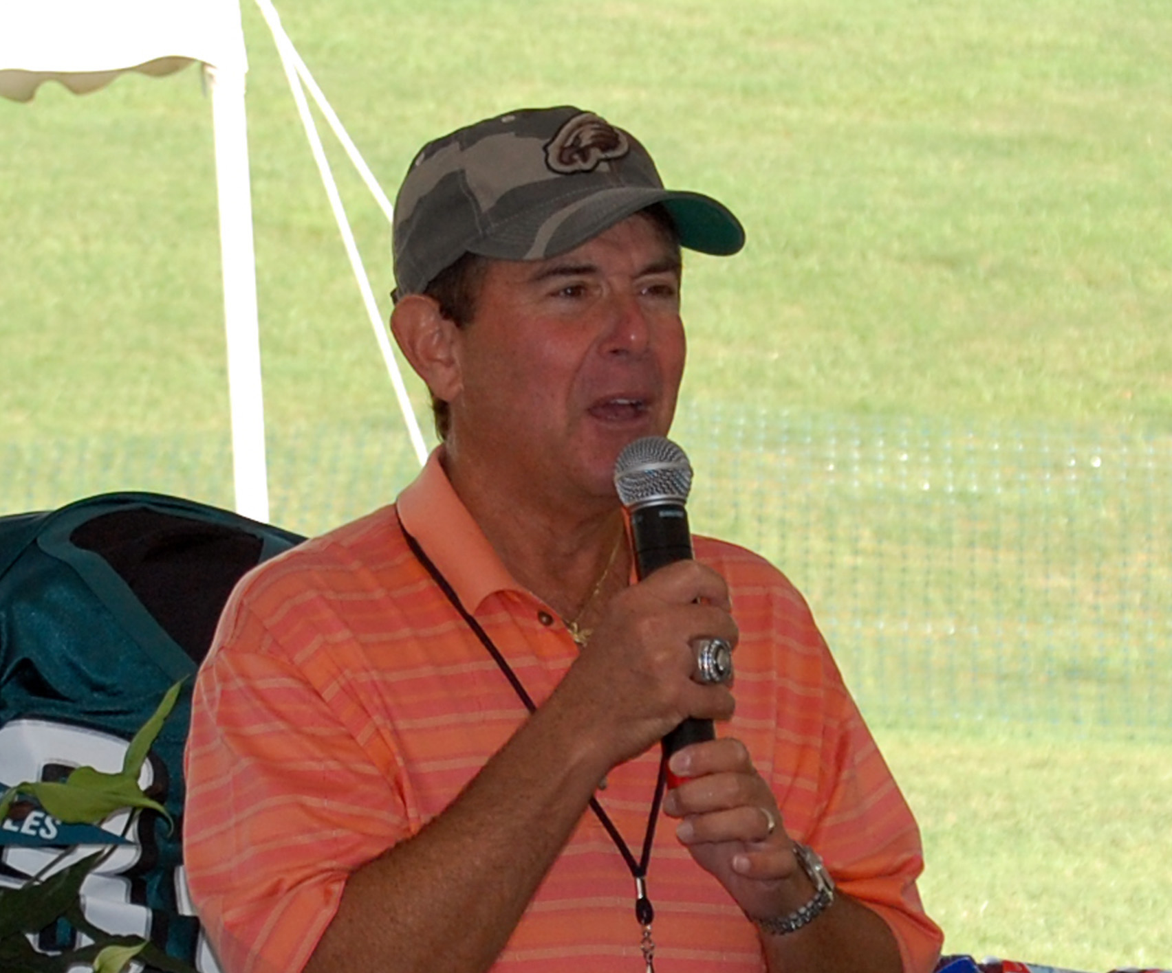 Merrill Reese, the "voice" of Philadelphia Eagles play-by-play action since 1977, talks to military members in attendance for Military Day at the Eagles training camp at Lehigh University in Lehigh. Penn. Mr. Reese talked about Eagles players, the upcoming National Football League season and also thanked the military for their service.